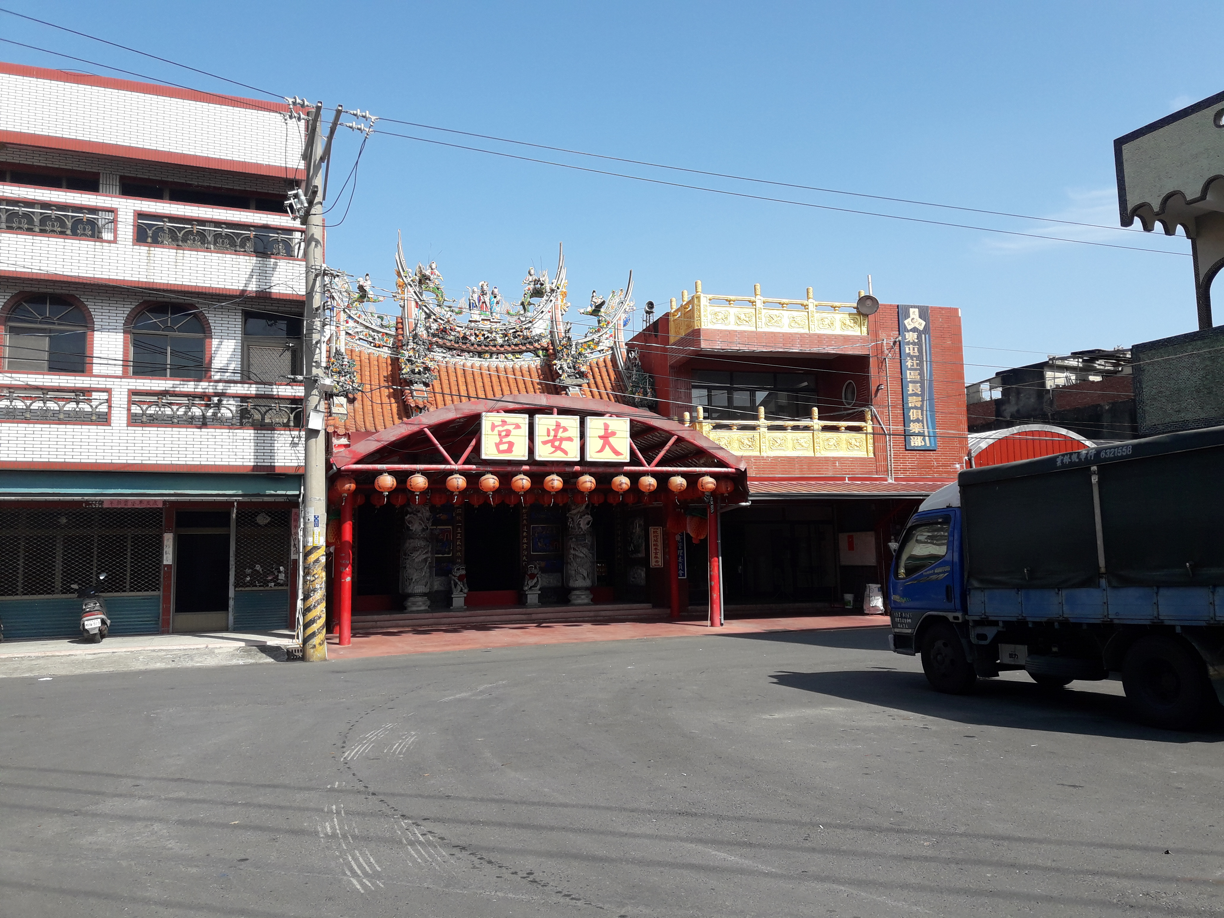 Datun Da'an Temple is Taoist temple in Huwei Township, Yunlin County, Taiwan.